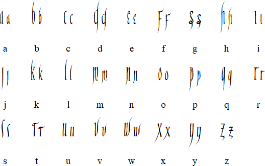 The Gallo-Roman script is a version of the Latin alphabet the emerged in Gaul during the Merovingian dynasty. It was used mainly in the monasteries of Luxeuil, Laon, Corbie and Chelles from the 7th and 10th centuries AD.